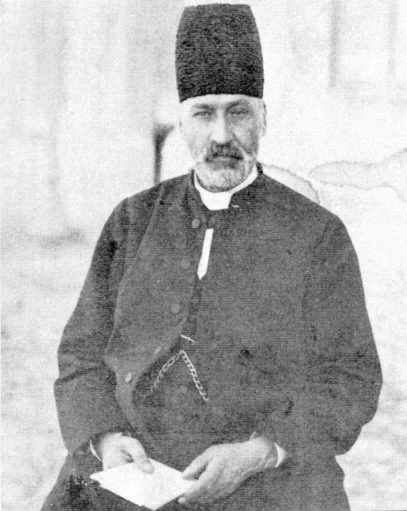 Nasrollah Khan Moshir al Dowleh